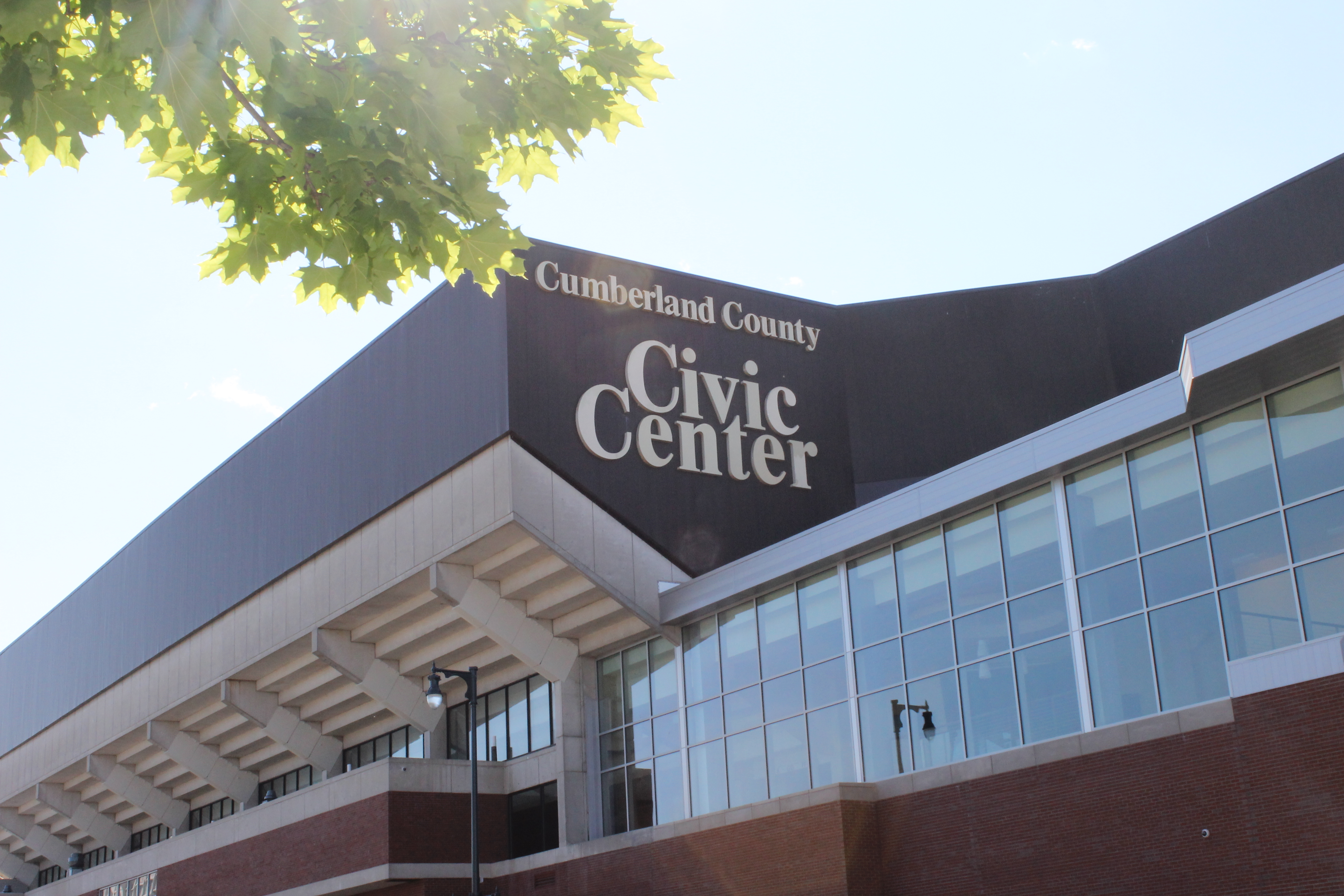 I took photo of Cumberland County Civic Center building in Portland, ME, with Canon camera.